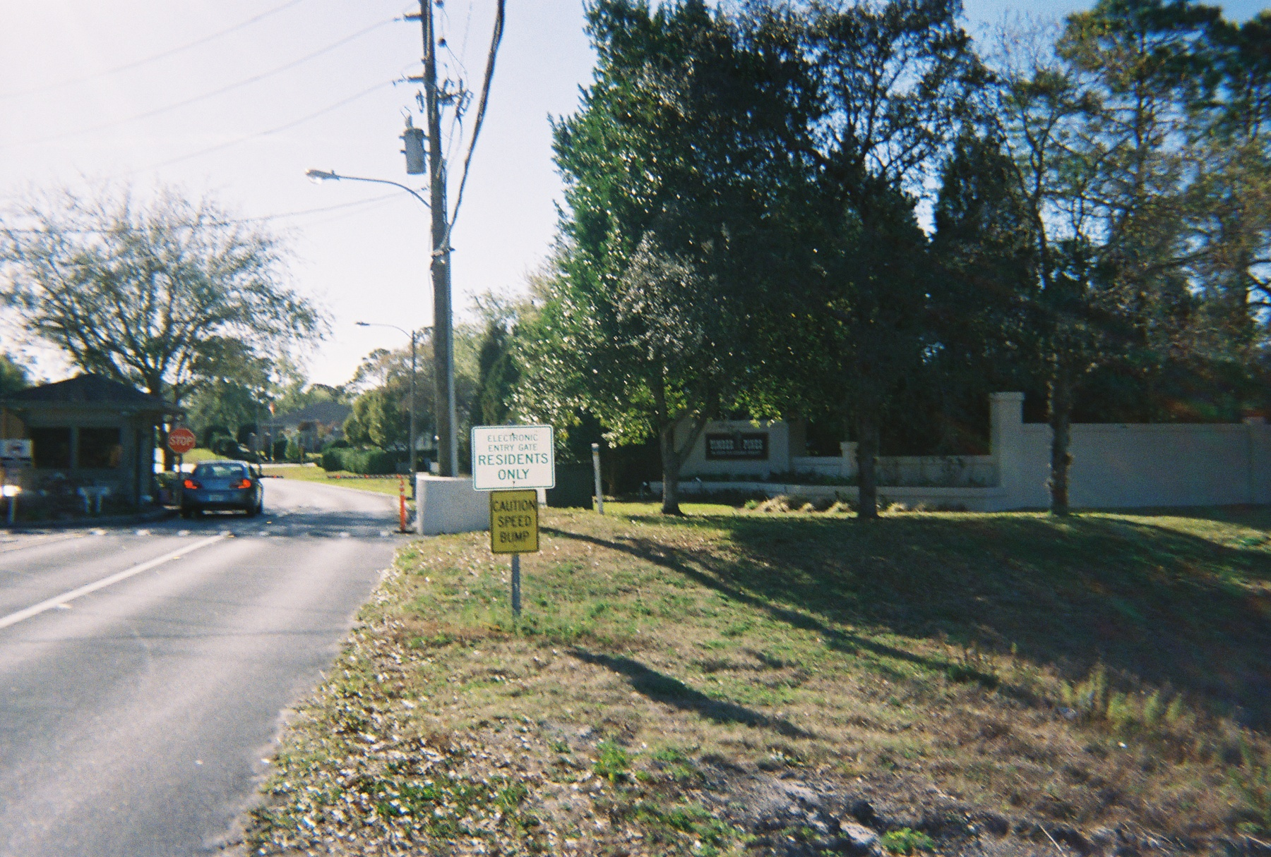 The east gate of Timber Pines, Florida on Abeline Road west of Deltona Boulevard(Hernando County Road 589). Note the sign saying that this is for residents only.